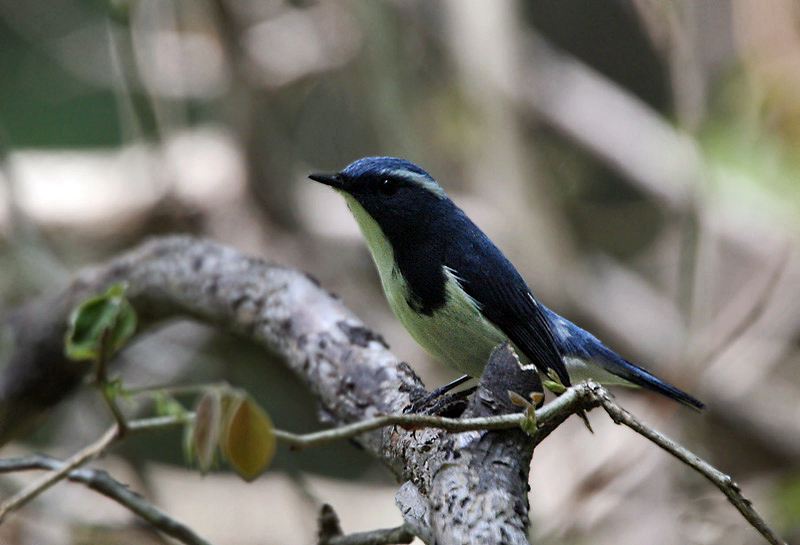 Ultramarine Flycatcher Ficedula superciliaris in Kullu District of Himachal Pradesh, India.